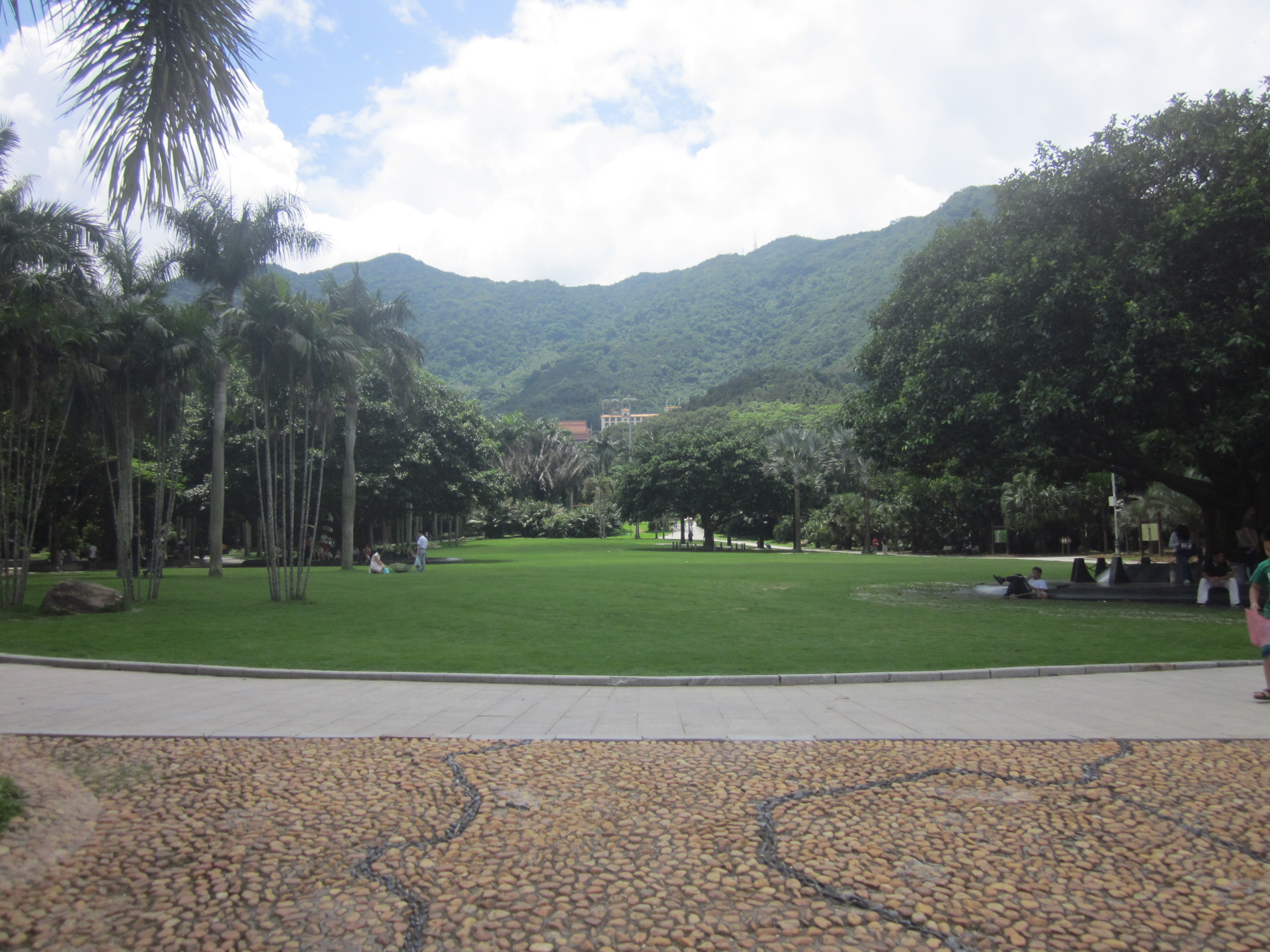 Hongfa Temple (弘法寺), is a Buddhist temple located in Bao'an District of Shenzhen city, south China's Guangdong province.